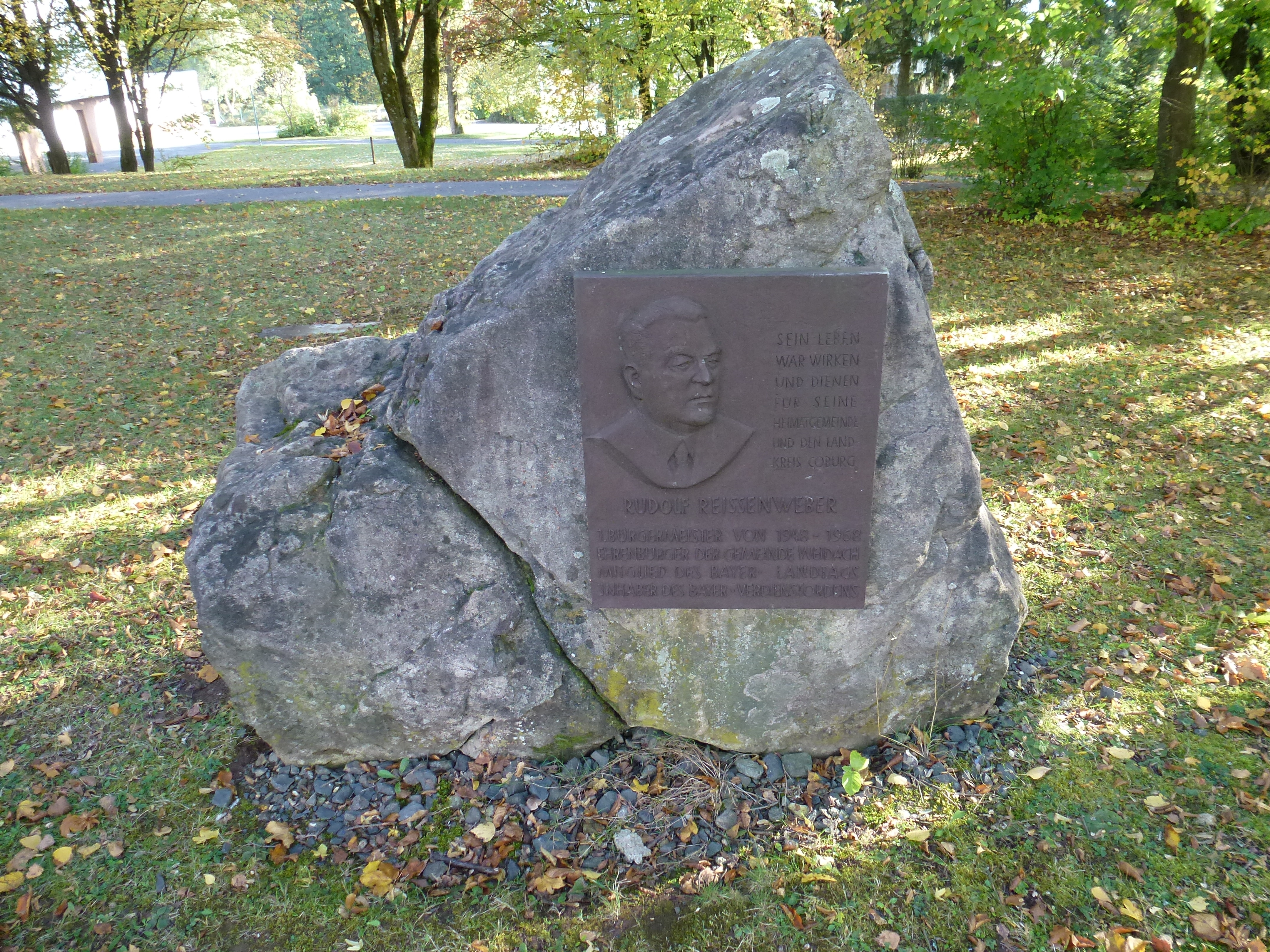 Rudolf Reissenweber - Memorial plaque for 1st Mayor and honorary citizen of Weidach - 1948-1968